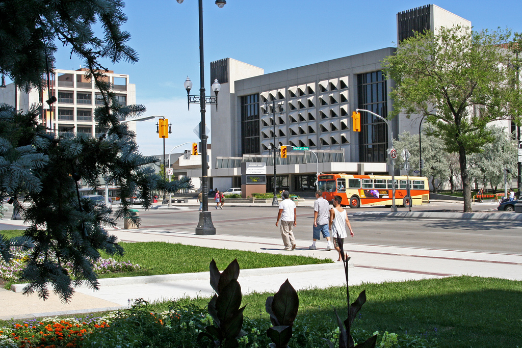 Centennial Concert Hall